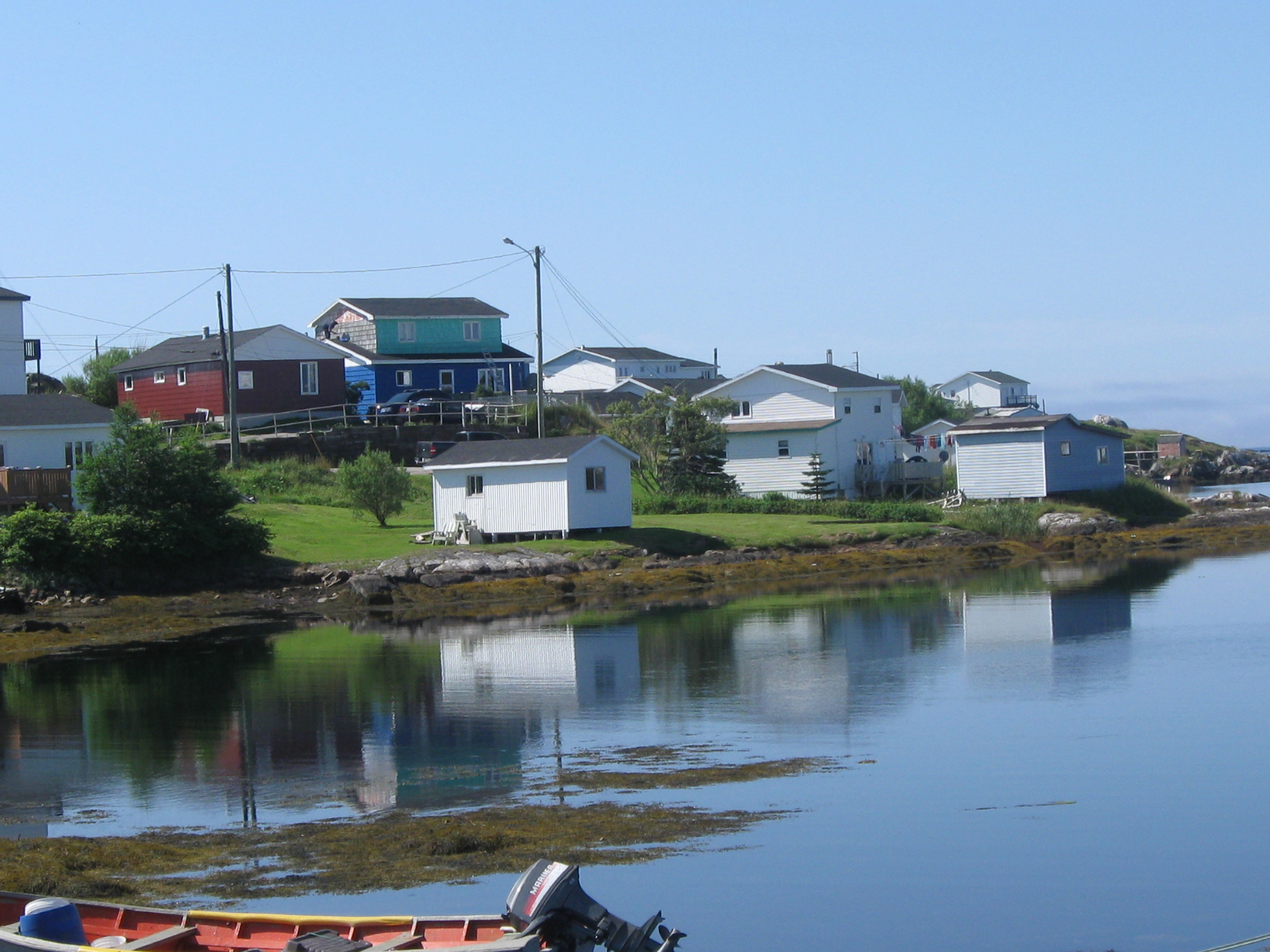 Isle aux Morts coastline